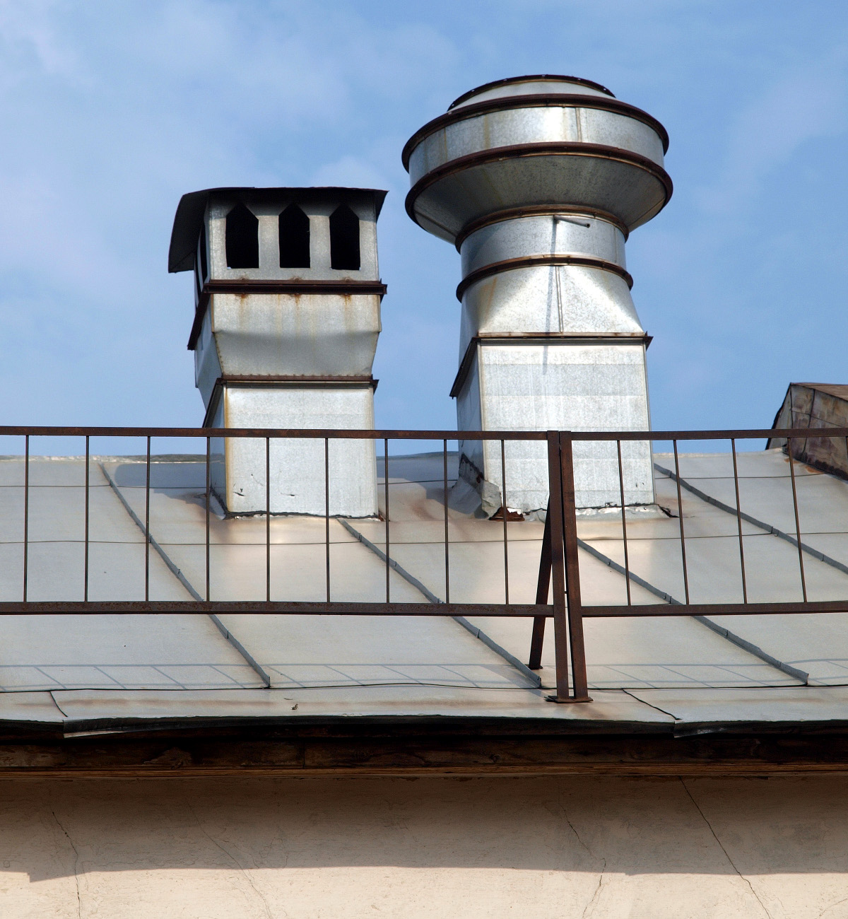 4th Schipkovsky Lane, Moscow. Former Tupolev experimental works.